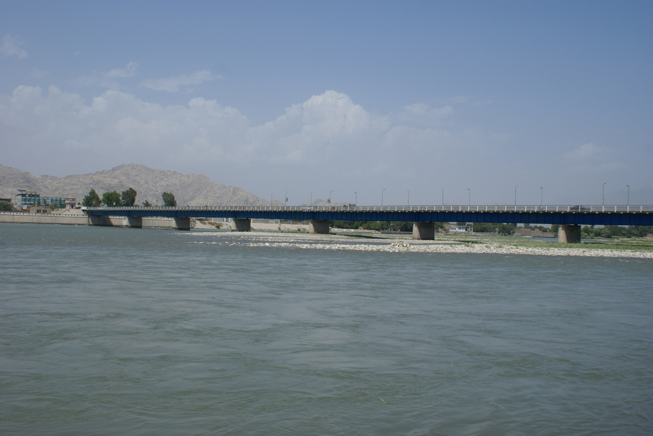 Kabul River in Behsood Bridge Area, Jalalabad - 30th July, 2009. By Qudratullah Khan پښتو: د کابل سيند د بهسودو پله په سيمه کې. په ۳۰ د جولای، ۲۰۰۹ کال. قدرت الله